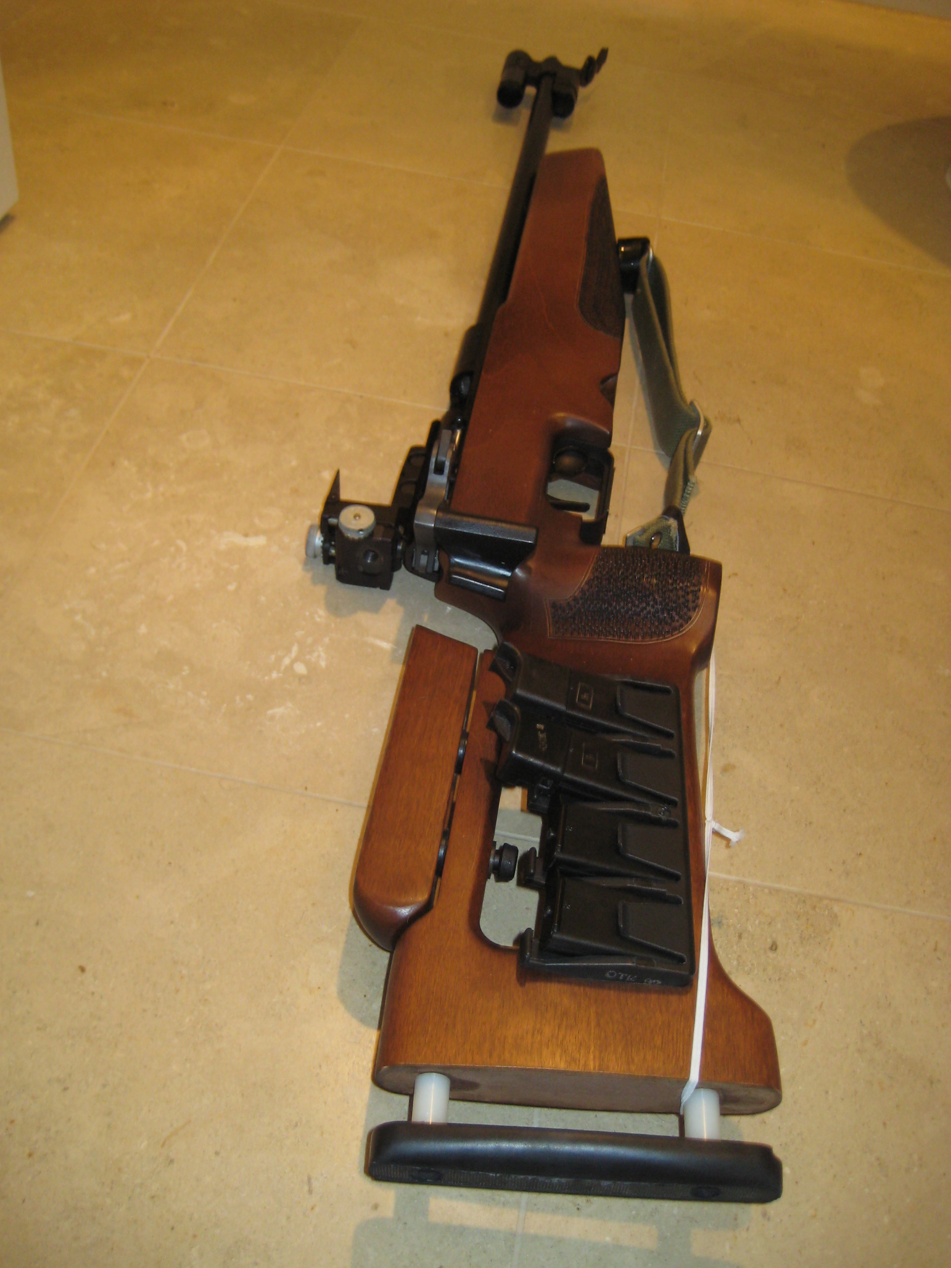 With prone sling attached. Two relay magazines and two regular magazines.